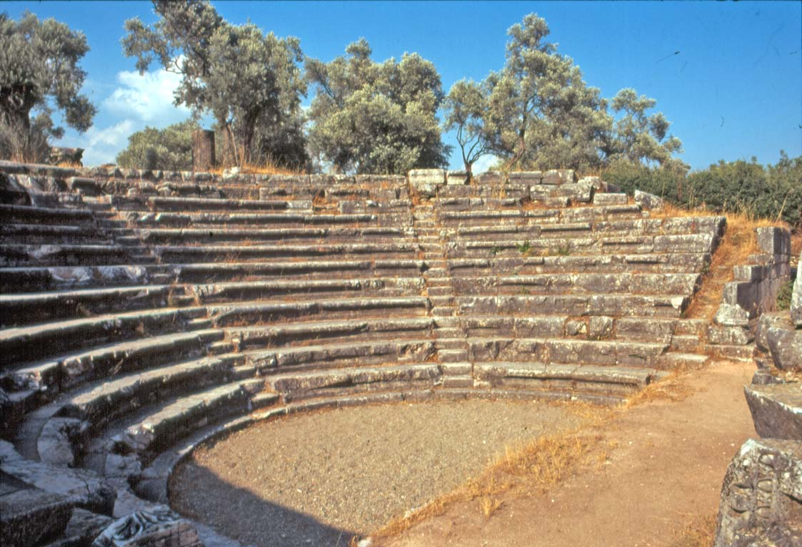 Nysa on Meander (Asia Minor): bouleuterion